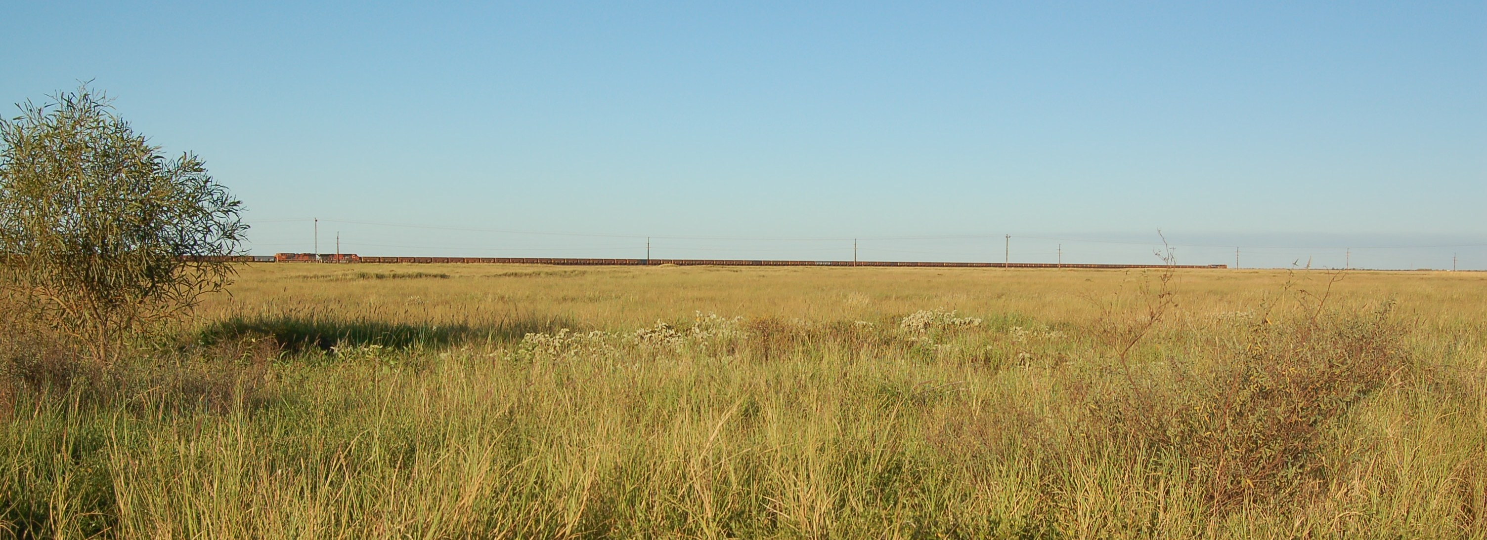 A BHP Billiton Iron Ore train of empty iron ore wagons heads out of Port Hedland, Western Australia on the Mount Newman railway towards Newman, with a pair of leading locomotives at right, and a pair of distributed power locomotives half way through the train at left.